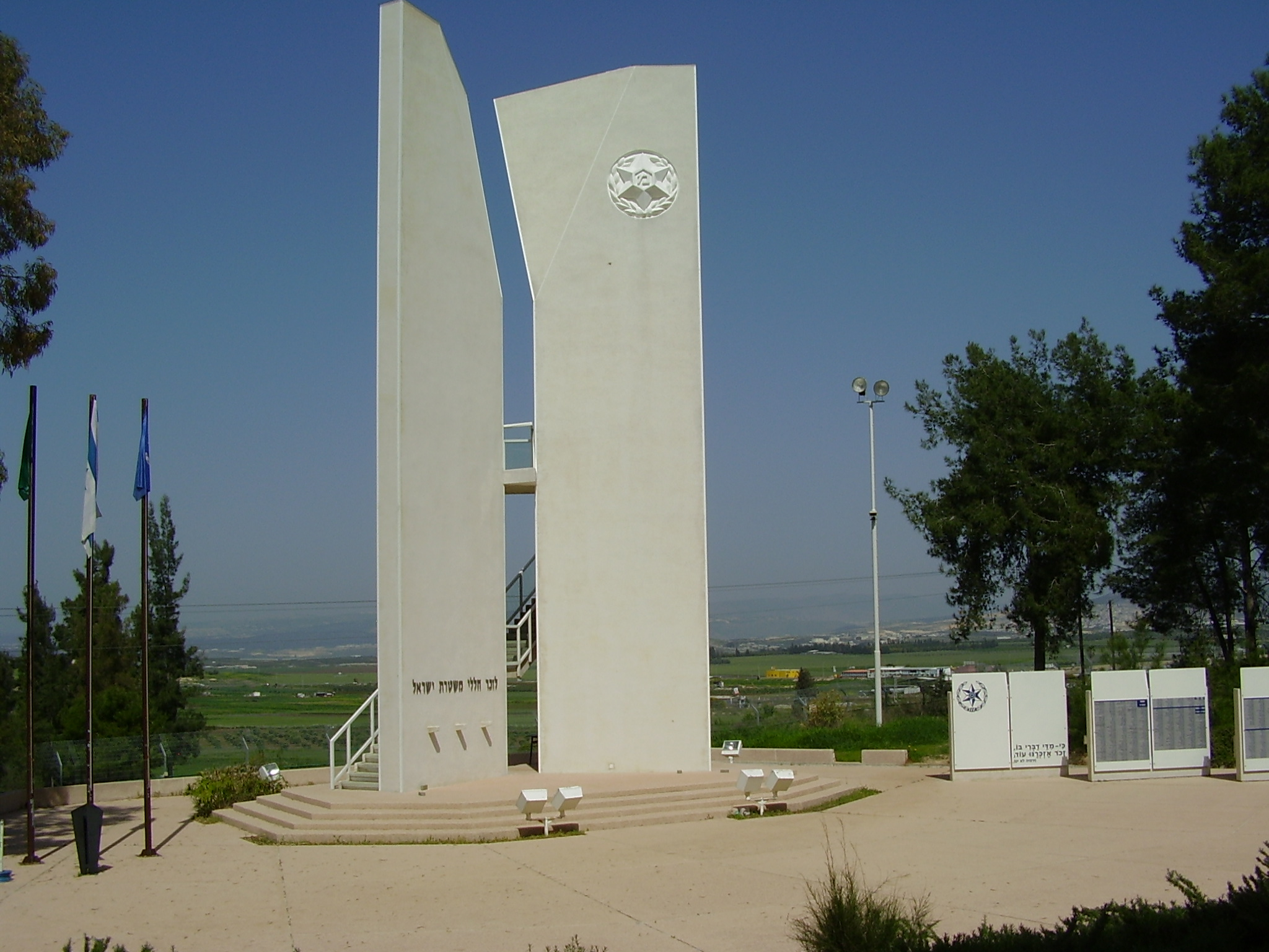 Israel Police Memorial in Kiryat Ata, designed by Architect Joseph Assa